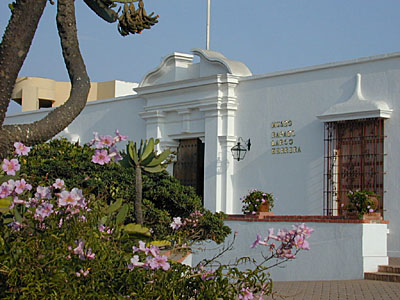 This is a photo taken by me in July 2007 of the Larco Museum in Lima, Peru.